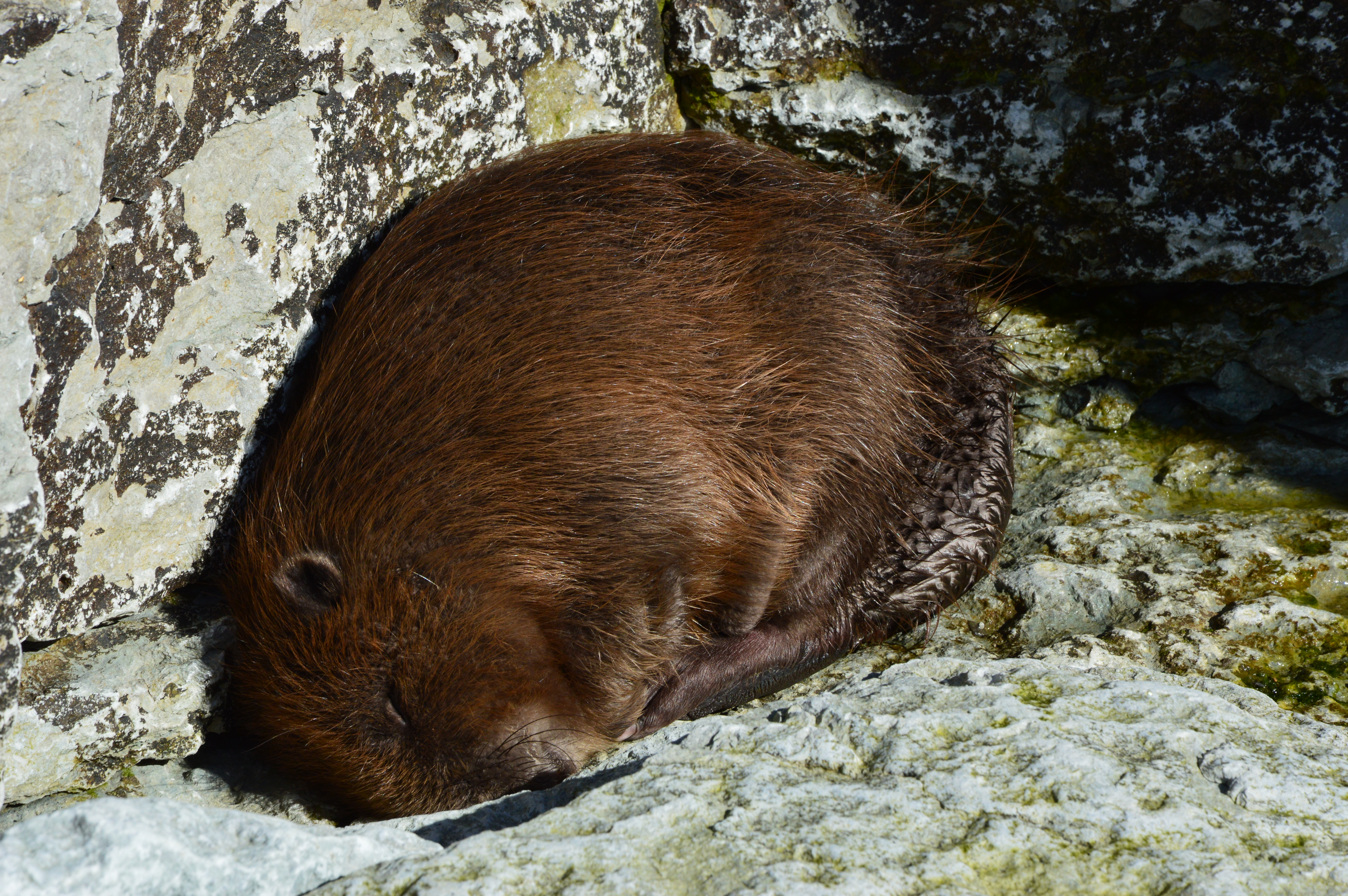 Sleeping Castor fiber on the bank of Osmussaare, Estonia.